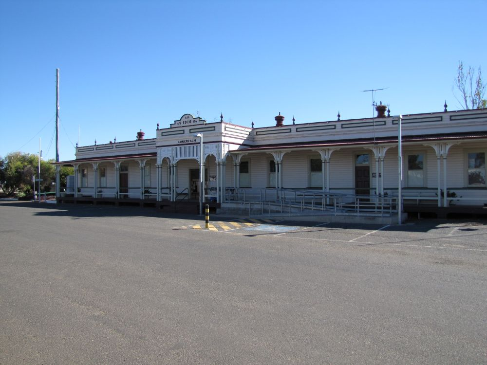 Longreach Railway Station (2013)